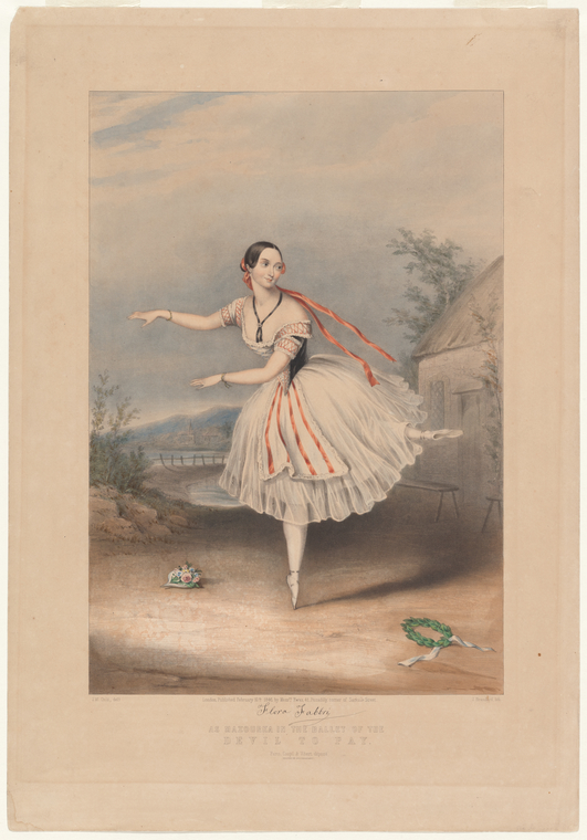 Flora Fabbri dancing as Mazourka in ballet The Devil to Pay. Paris, Goupil and Vibert, depose. Published 10th February 1846 by Messrs Fores, London.